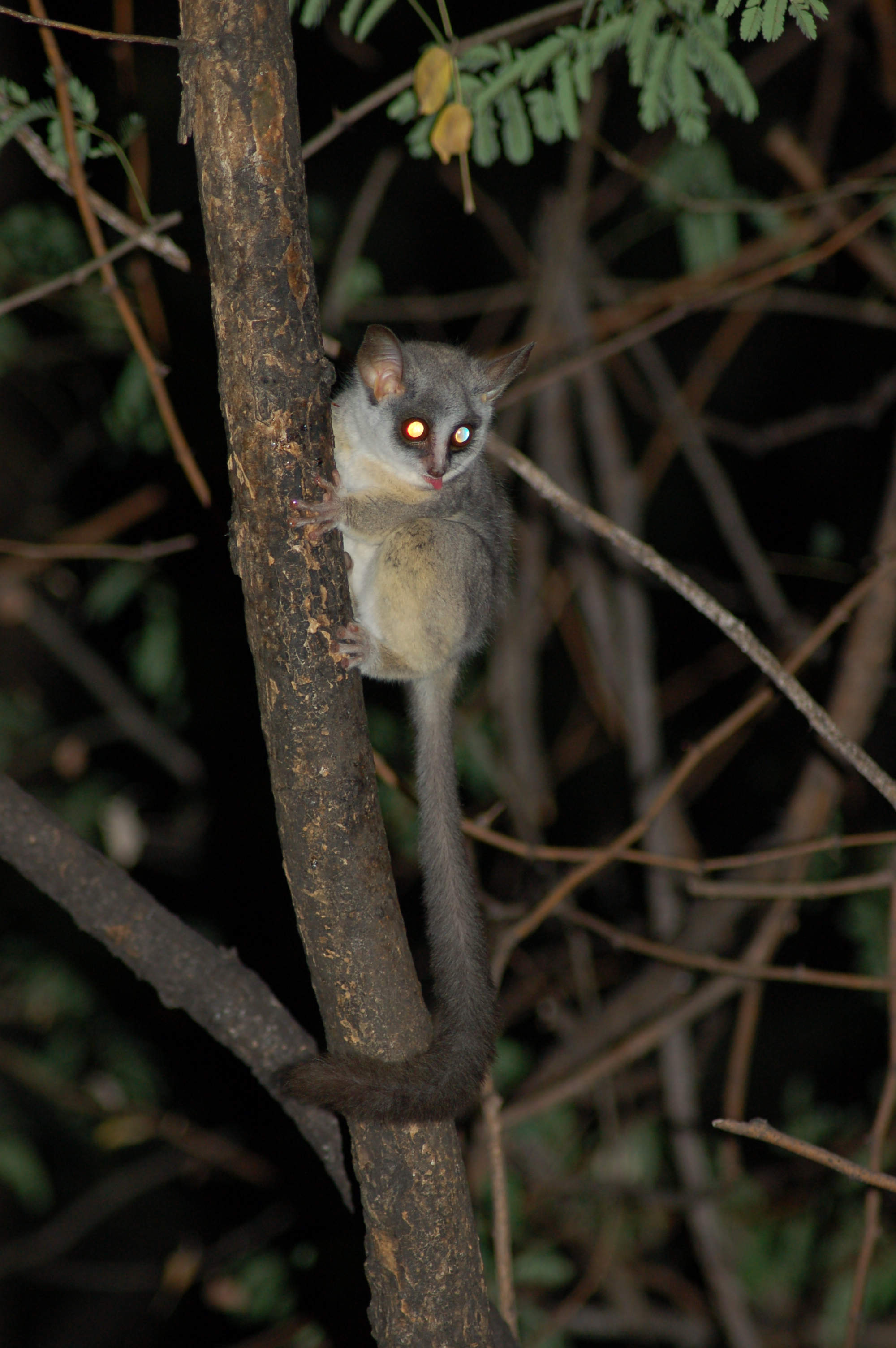 Galago